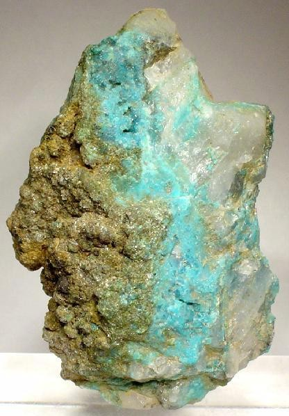 Turquoise Locality: Lynch Station, James River-Roanoke River Manganese District, Campbell County, Virginia, USA (Locality at ) An EXTREMELY RICHLY covered matrix of milky quartz and muscovite covered with sparkling, gemmy, isolated, micro sky-blue turquoise crystals from the famous Lynch Station prospect of Virginia. Discrete, well-formed turquoise crystals are very rare and this is a REALLY good one. Lynch Station has produced probably the worlds best crystallized turquoise. They are micros, but overall its a large enough plate that it pleases those of us who like things to look at, too. 5.6 x 3.9 x 2.2 cm